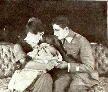 Still from the American film White Lies (1920) with Gladys Brockwell and William Scott (1896 – 1967), on page 4951 of the June 19, 1920 Motion Picture News.